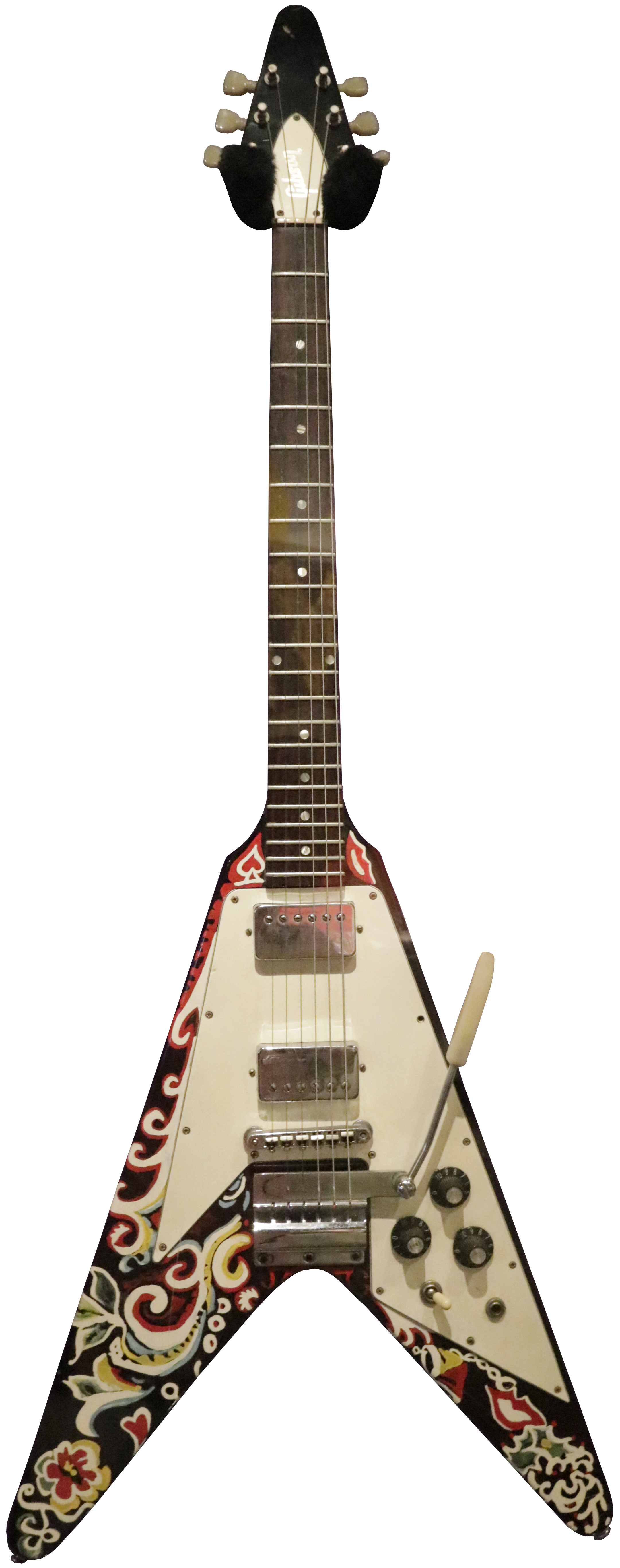 Jimi Hendrix's hand painted 1967 Gibson Flying V (Rock and Roll Hall of Fame, Cleveland, OH).